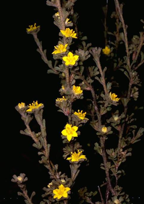 Asterolasia phebalioides in the Australian National Botanic Gardens, Canberra